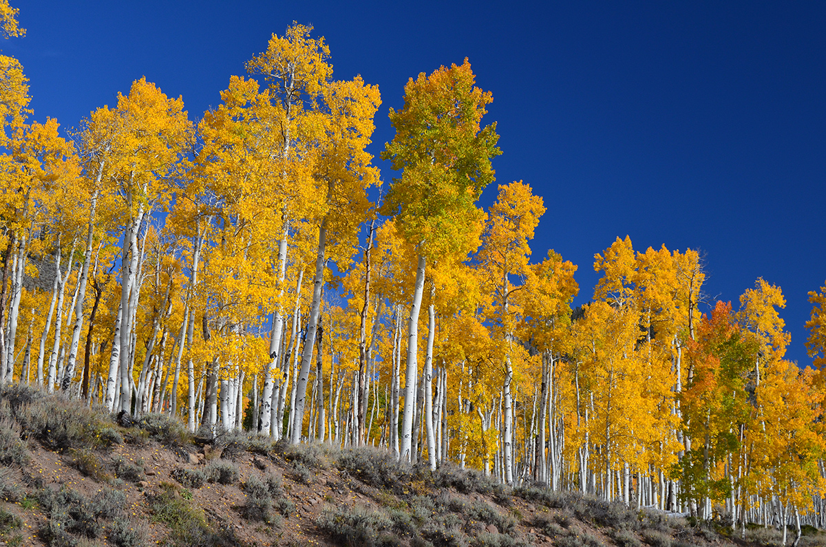 Fall photo of world's oldest organism, a grove of Populus tremuloides (Quaking Aspen) sharing one root system, from Fish Lake National Forest website